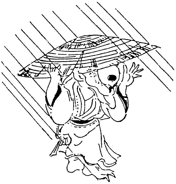 Amefurikozō (雨降小僧, a little boy spirit who plays in the rain) from Gozonji no bakemono (御存之化物)